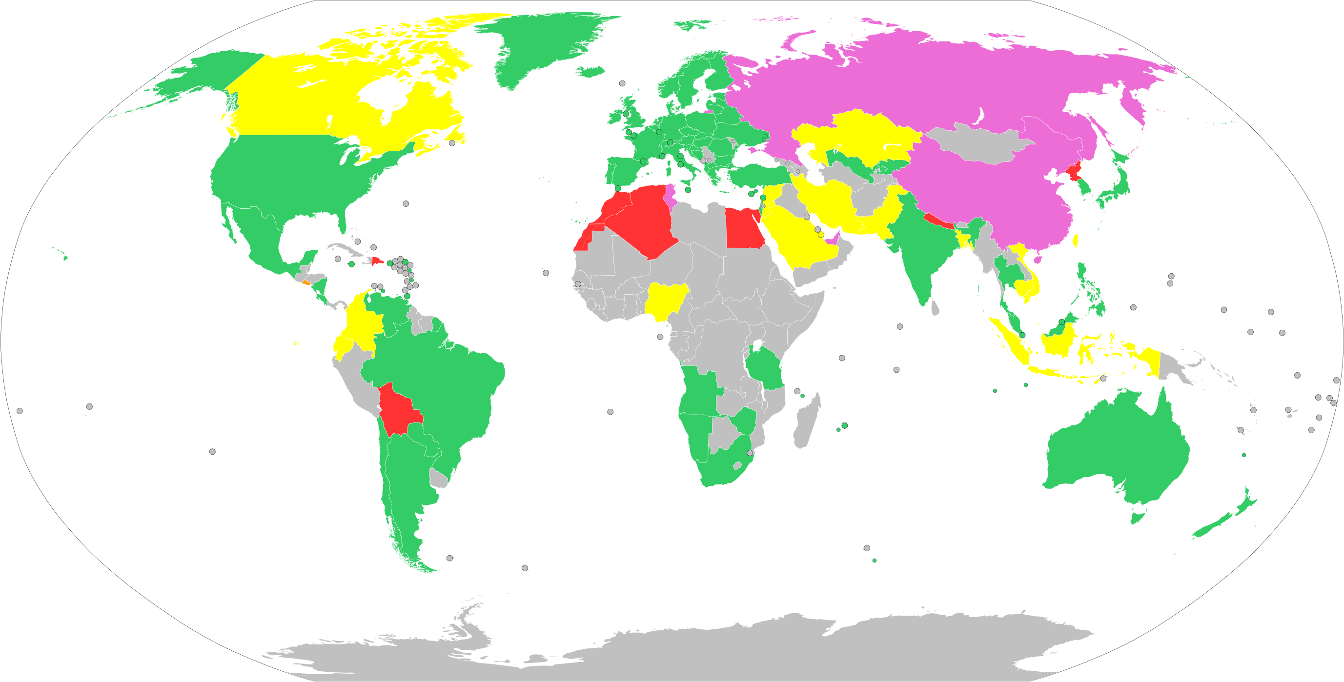 Legal status of bitcoin permissive (it's legal to use bitcoin) contentious (some restrictions on legal usage of bitcoin) contentious (interpretation of old laws, but bitcoin isn't prohibited directly) hostile (full or partial prohibition)